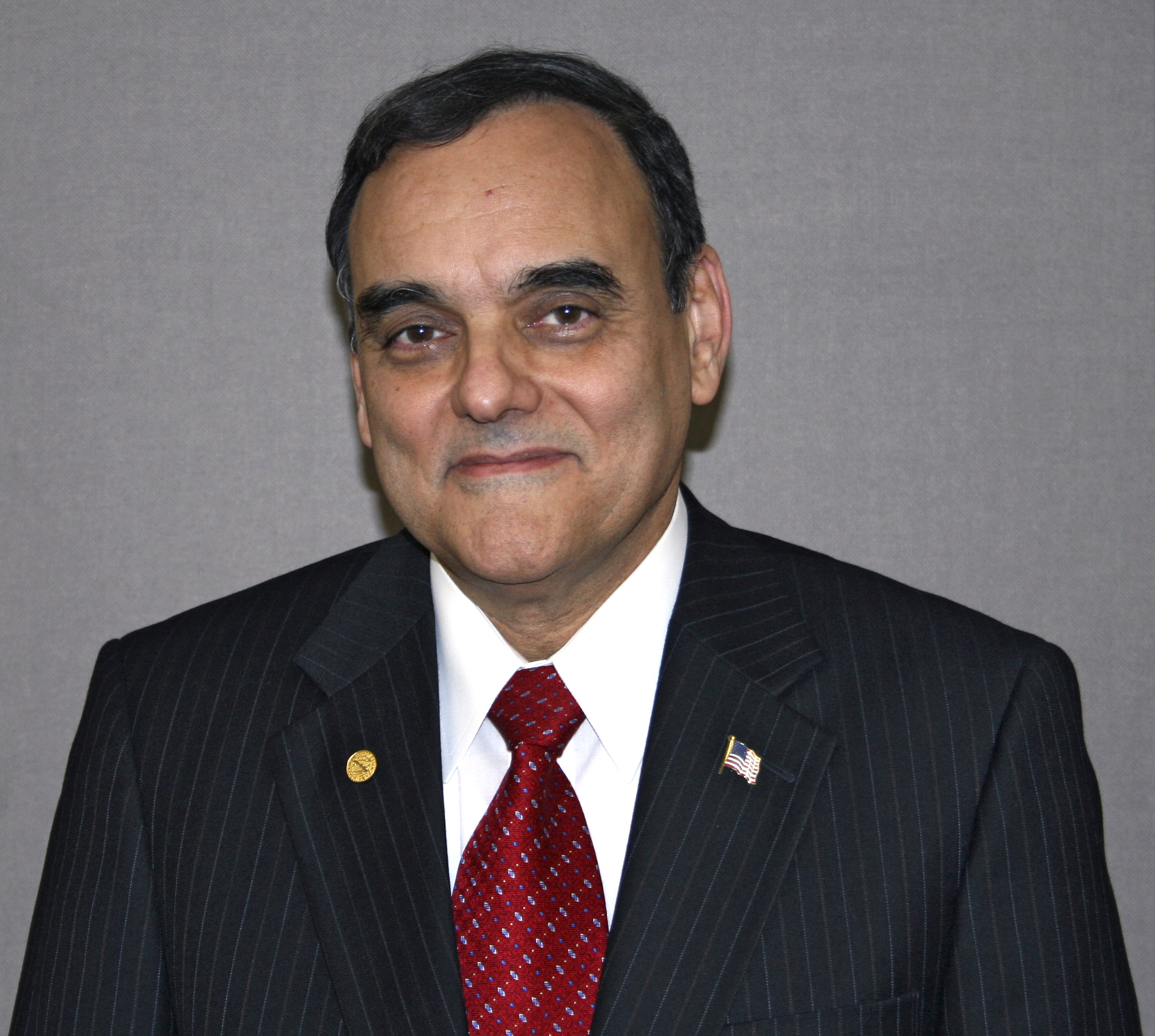 An image of Bill Proenza, incoming National Hurricane Center director.